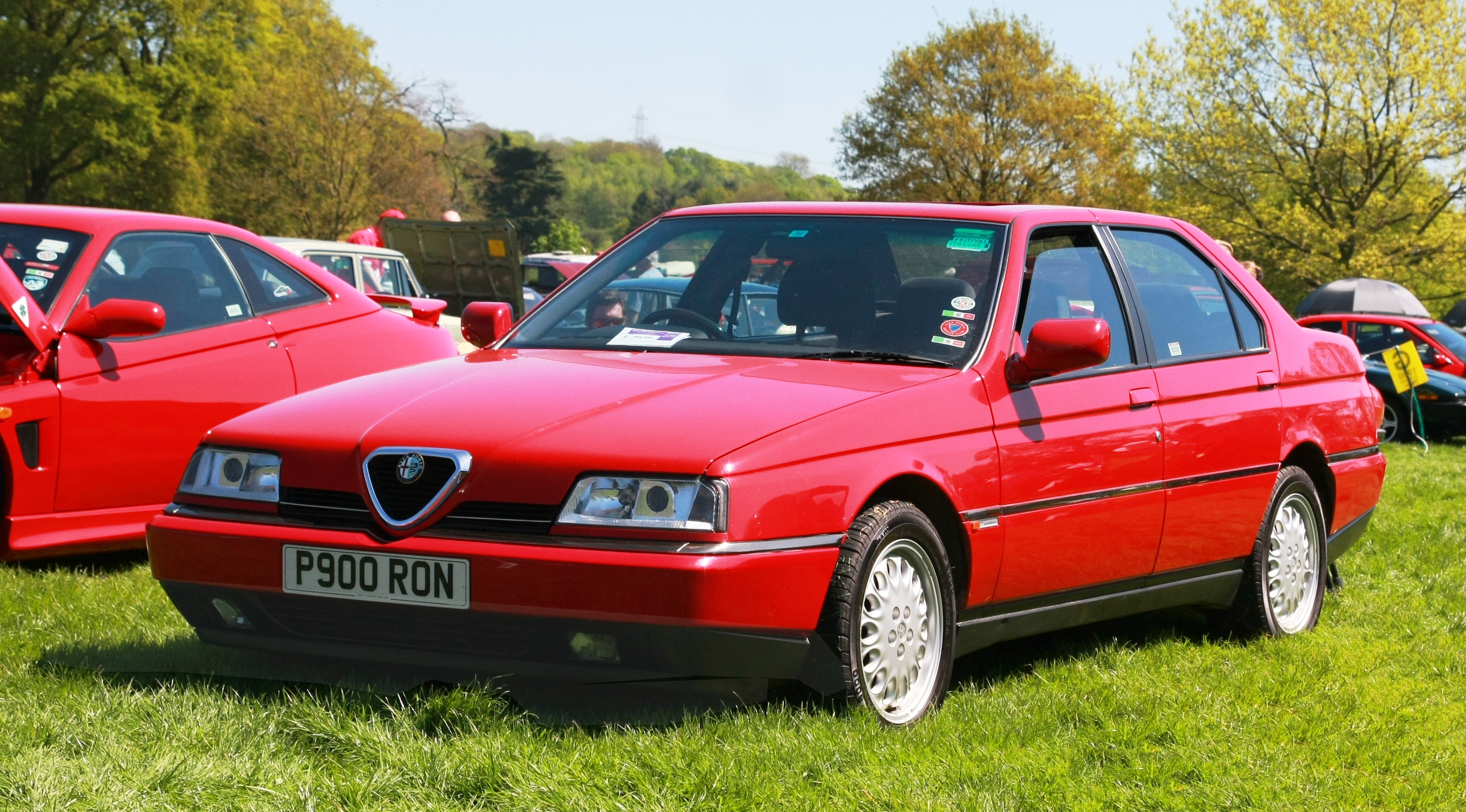 Alfa Romeo 164 at Catton Hall